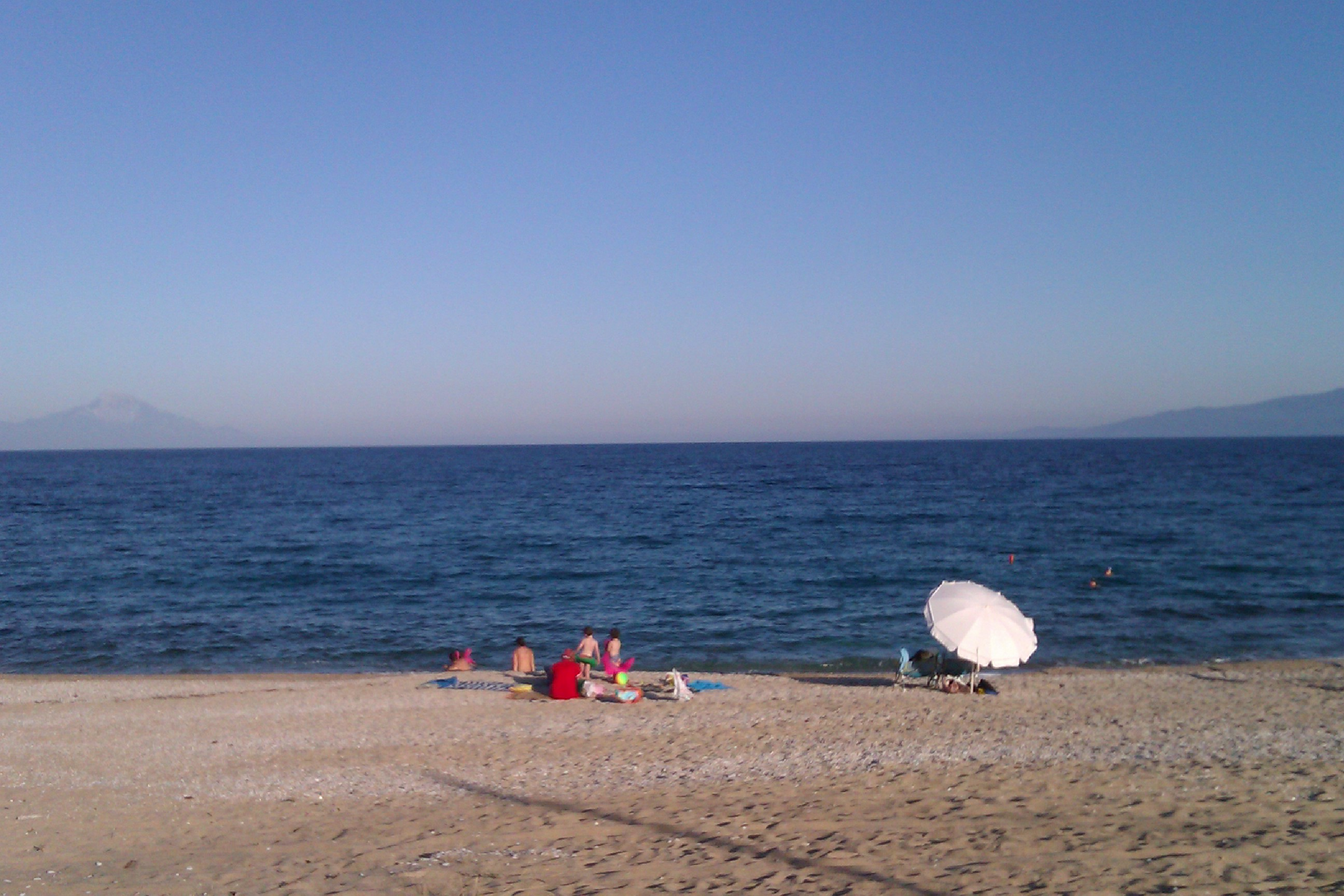 the heart of Singitic gulf